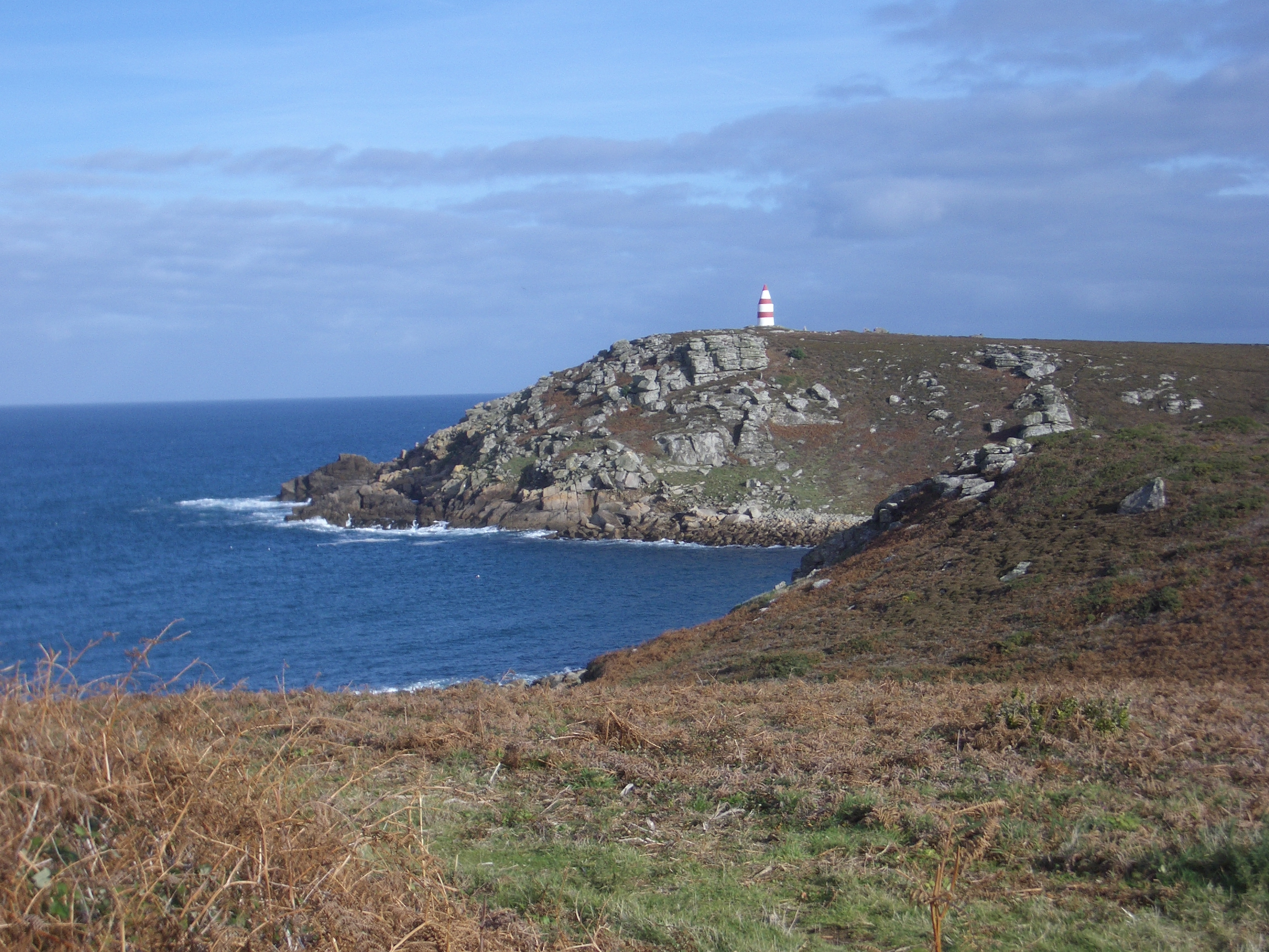 The Daymark on St Martin's.